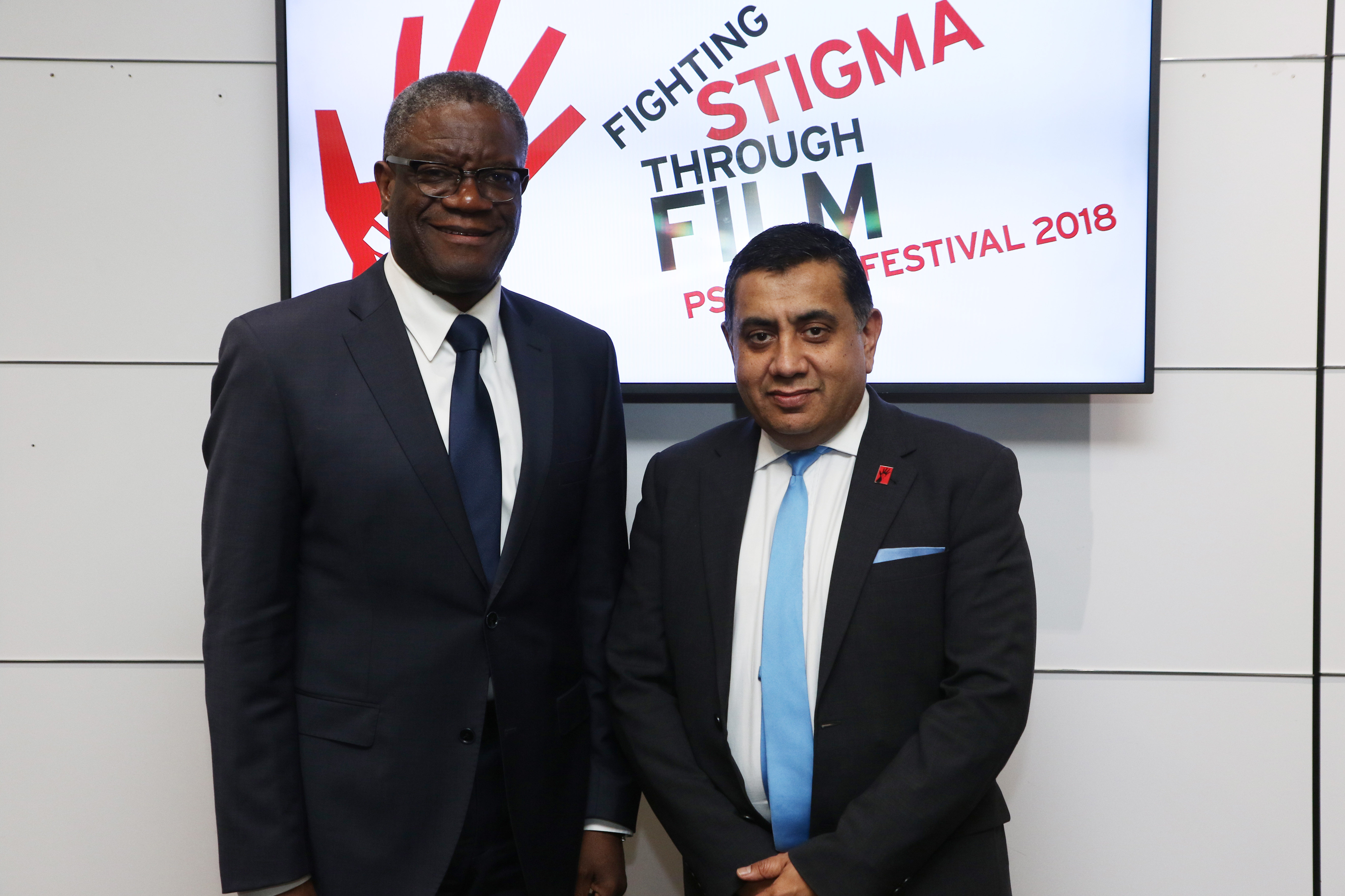 Foreign Office Minister Lord Ahmad with Dr Denis Mukwege at the PSVI Film Festival: Fighting Stigma Through Film in London, 23 November 2018.